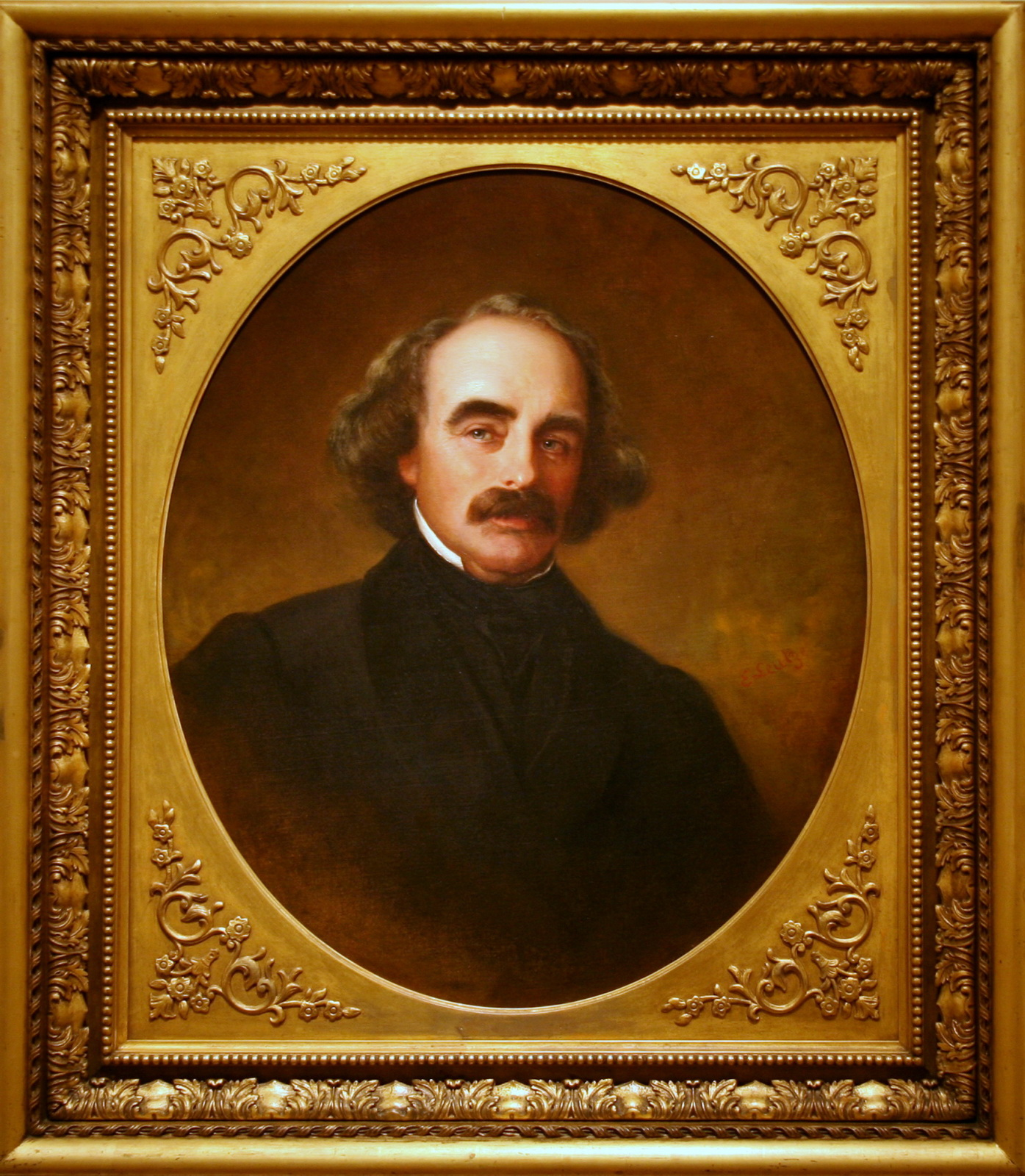 Oil on canvas portrait of Nathaniel Hawthorne; original size without frame 75.9×64.1 cm.